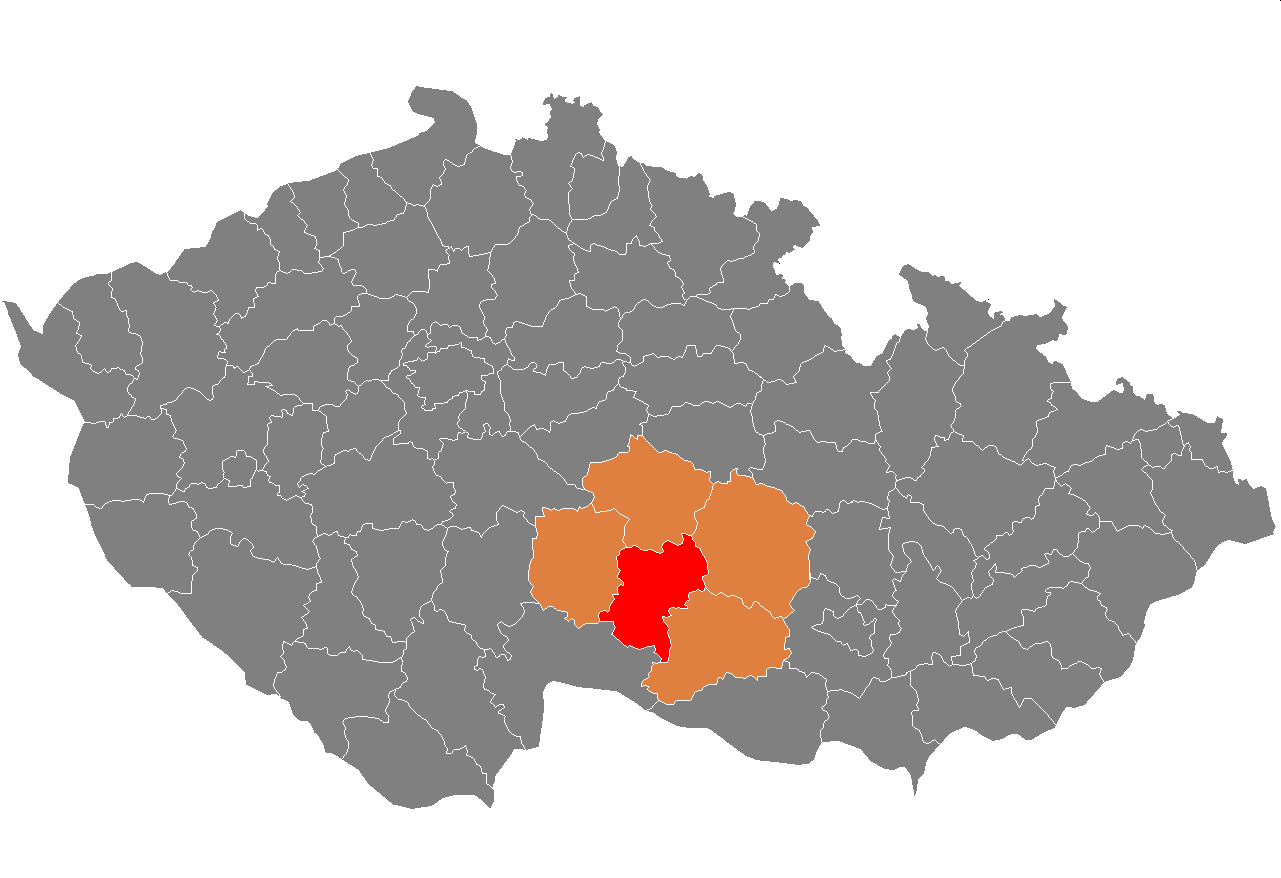 Location of Jihlava District in Vysočina Region and the Czech Republic.